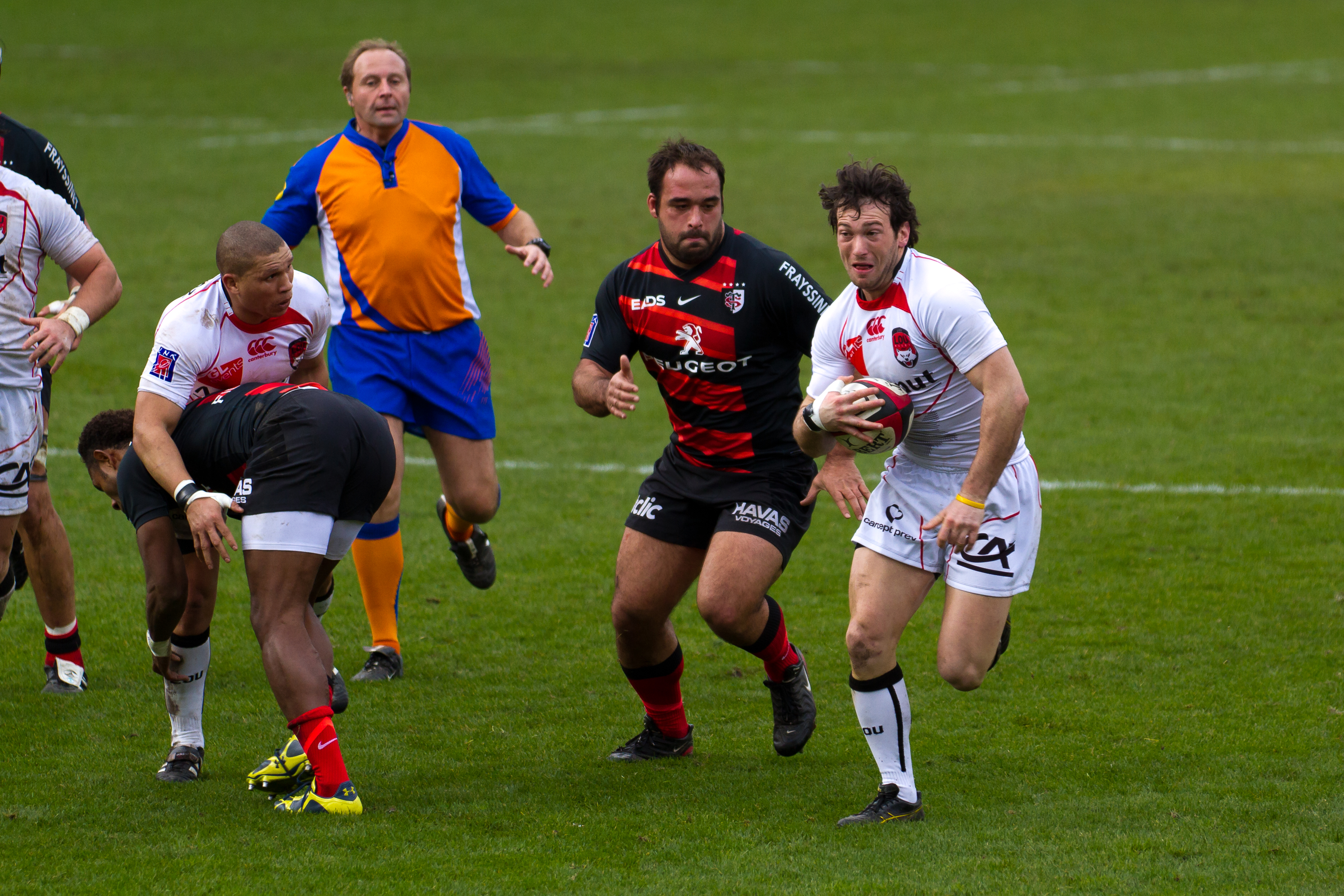 Top 14 — 7 January 2012, Stade Ernest-Wallon. Match between: Stade toulousain — Lyon olympique universitaire